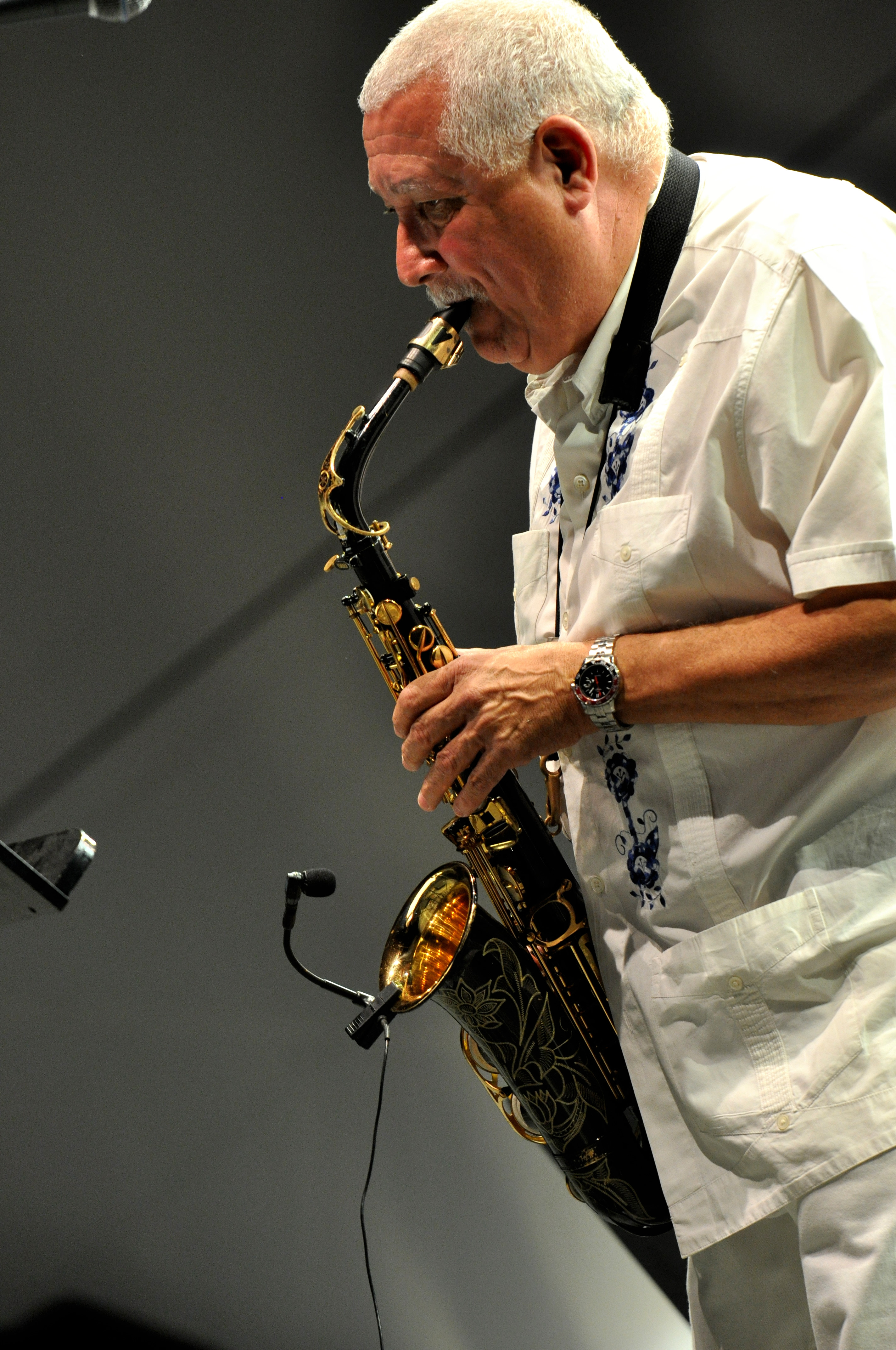 Trio Corrente feat. Paquito D'Rivera (BRA/CUB), World Music Festival Horizonte 2015, Ehrenbreitstein Fortress, Koblenz, Rhineland-Palatinate, Germany Festivalsommer This photo was created with the support of donations to Wikimedia Deutschland in the context of the CPB project "Festival Summer".